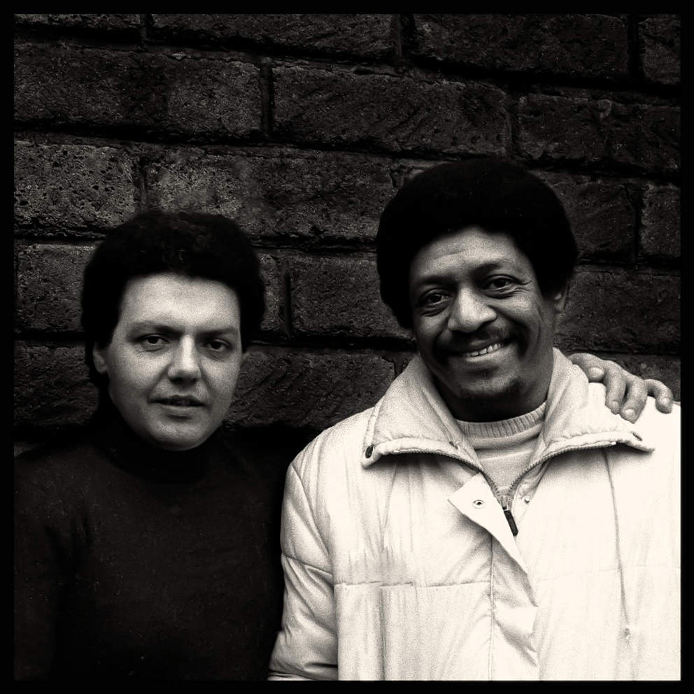 Portraits: Irio De Paula & Mario Fasciano - Augusto De Luca photographer